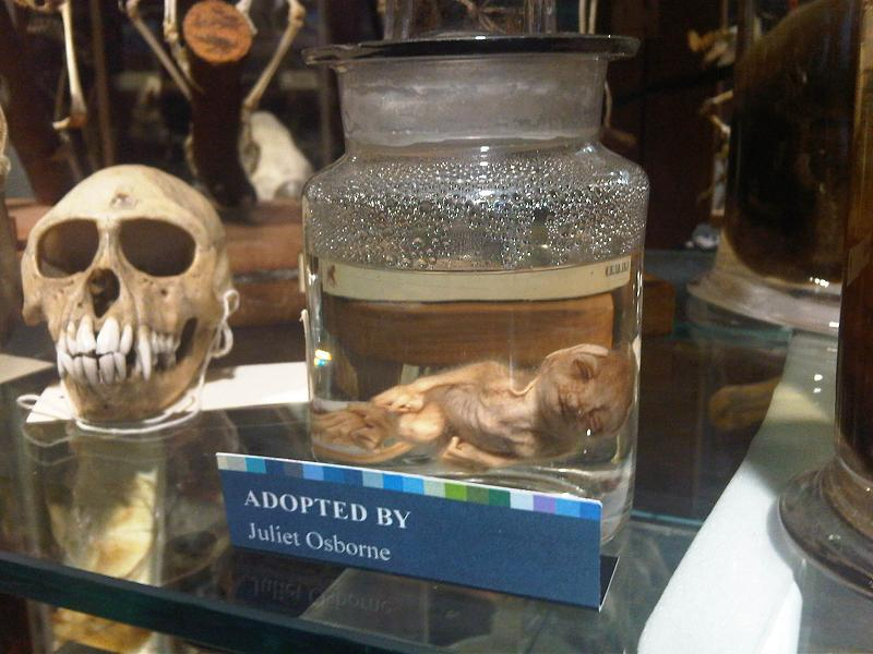 Unidentified howler monkey (Alouatta) skull and fetus, in Grant Museum of Zoology, London, England.